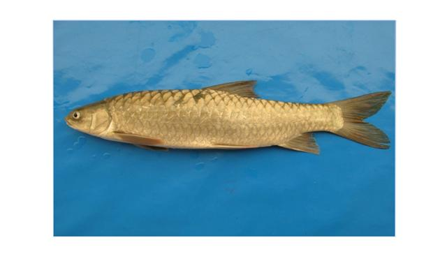 Iran, by Reza salighehzadeh